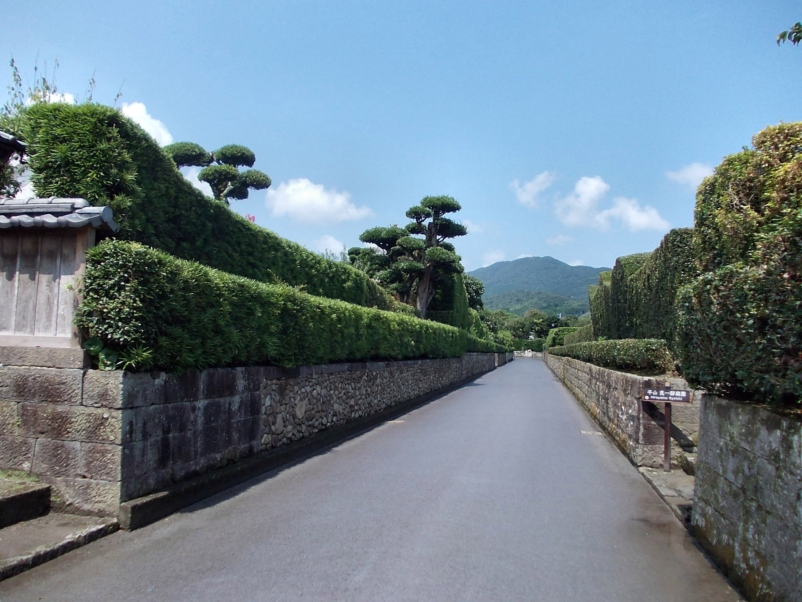 Sakurai Residence in Chiran, Kagoshima, Japan